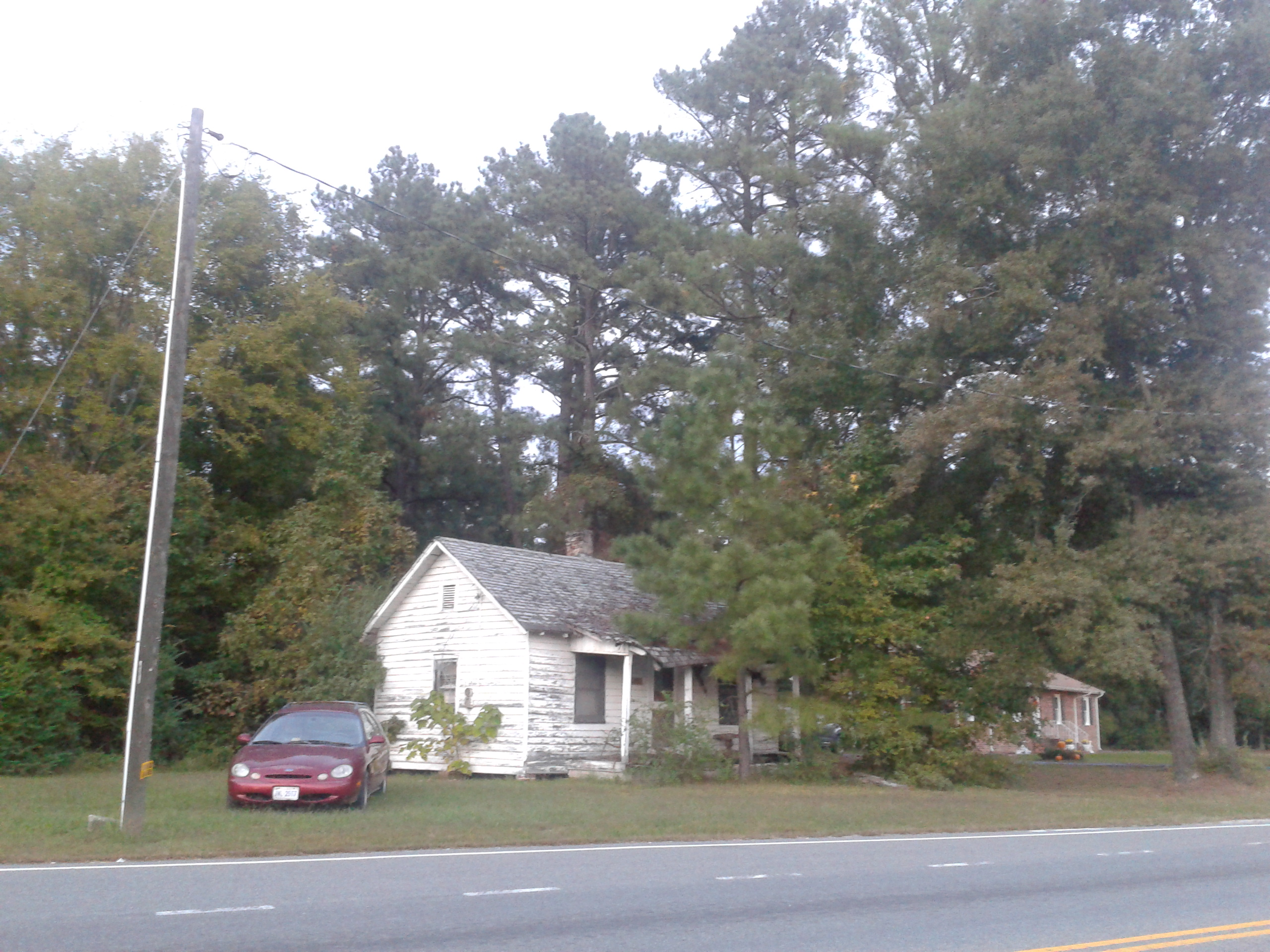 Taken by me in October, 2016